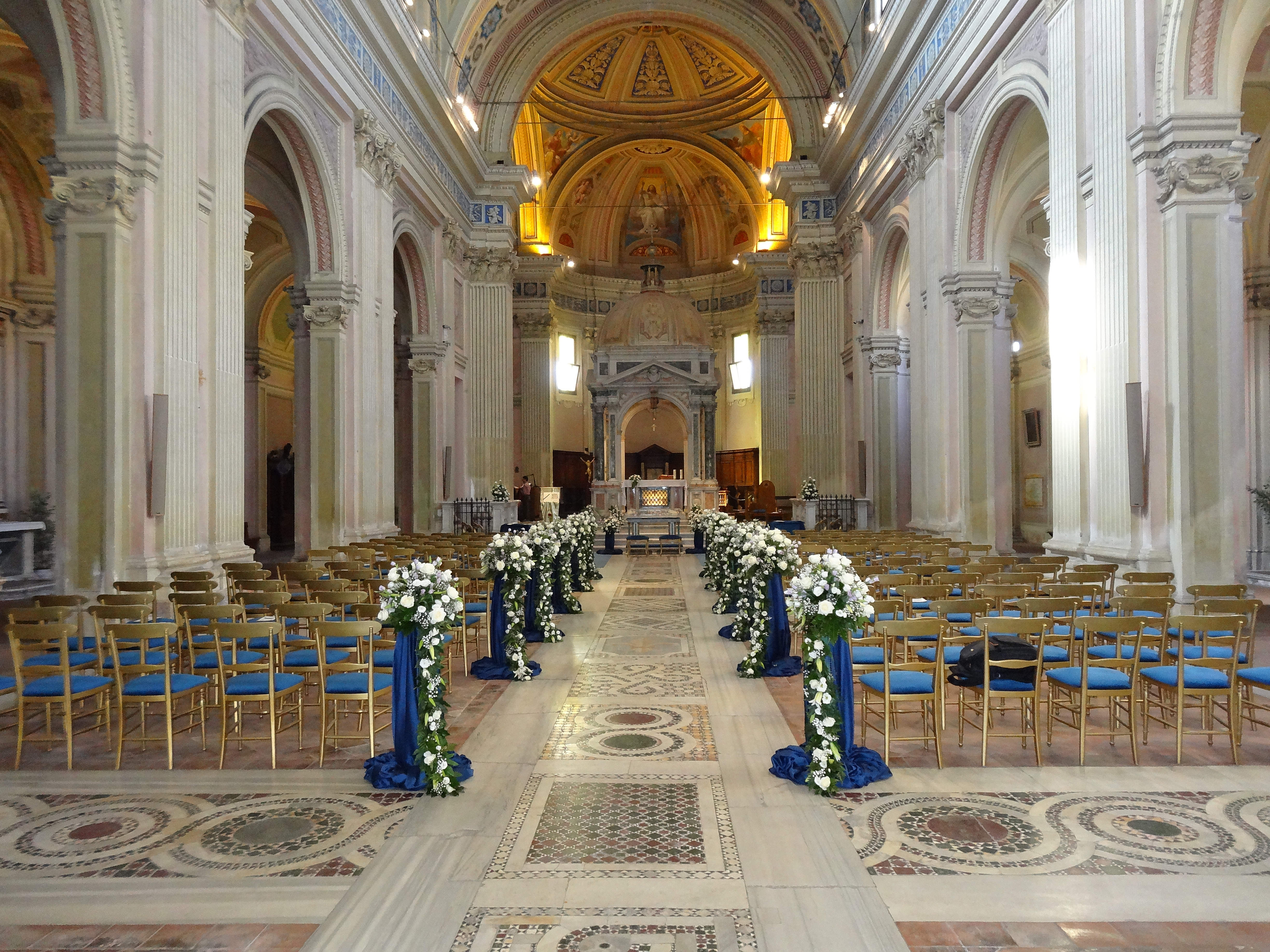 sant'alessio church internal